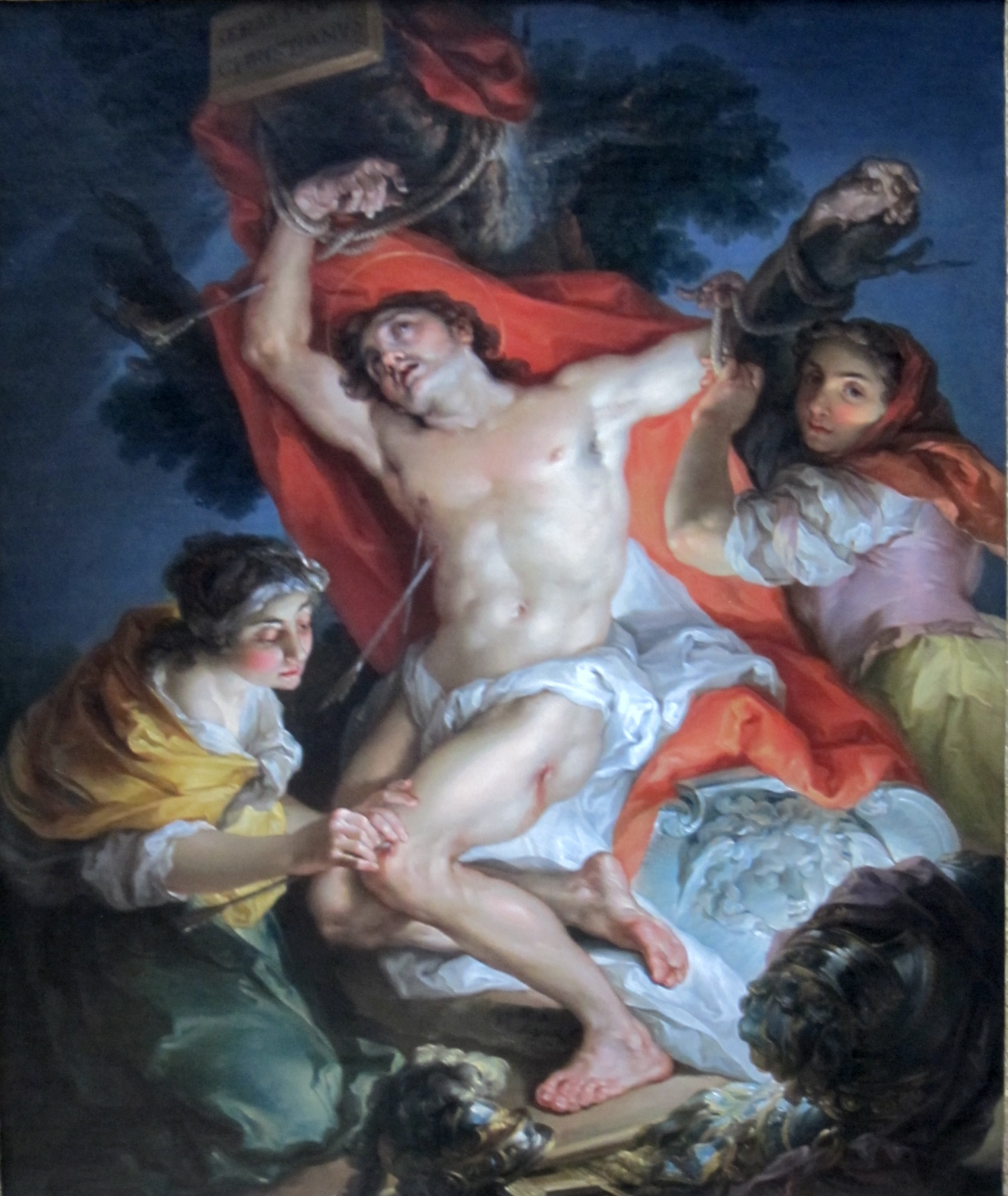 Saint Sebastian Tended by Saint Irene, oil on canvas painting by Vicente López Y Portaña, 1795-1800, Getty Center